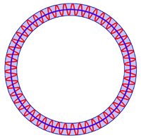 Inferior semi-continuity of the function art-length